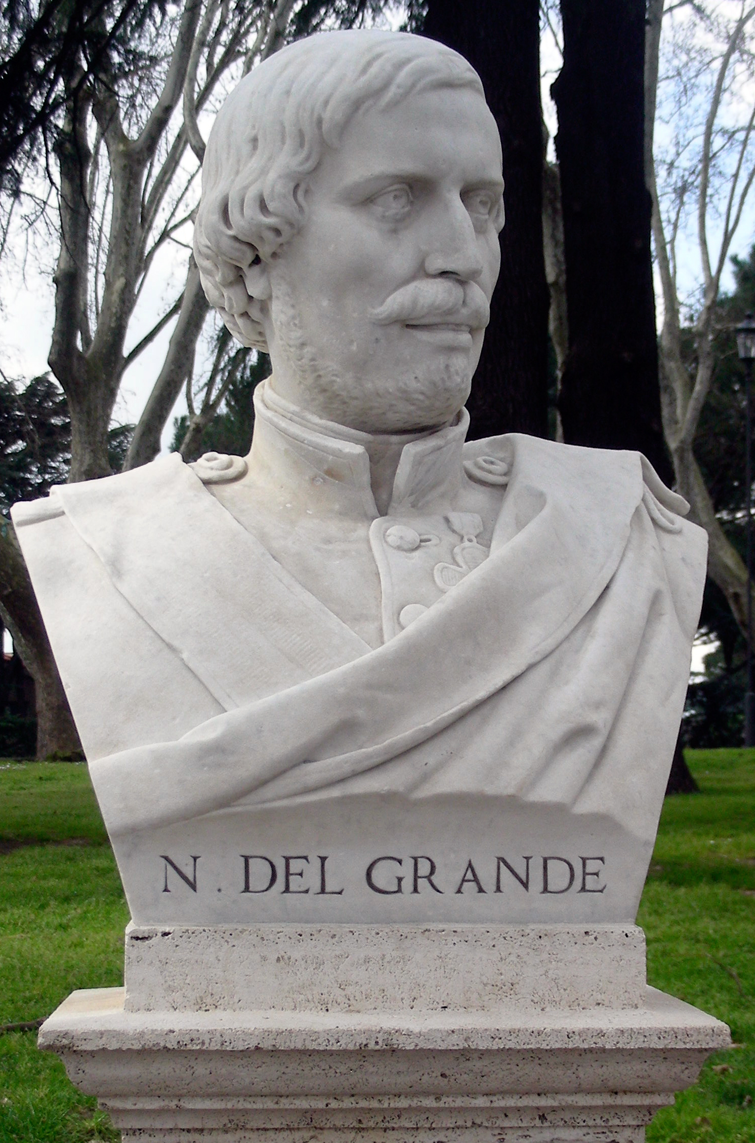 Rome, park of Gianicolo, bust of Natale Del Grande (1800-1848) by Mario Gori (1887)